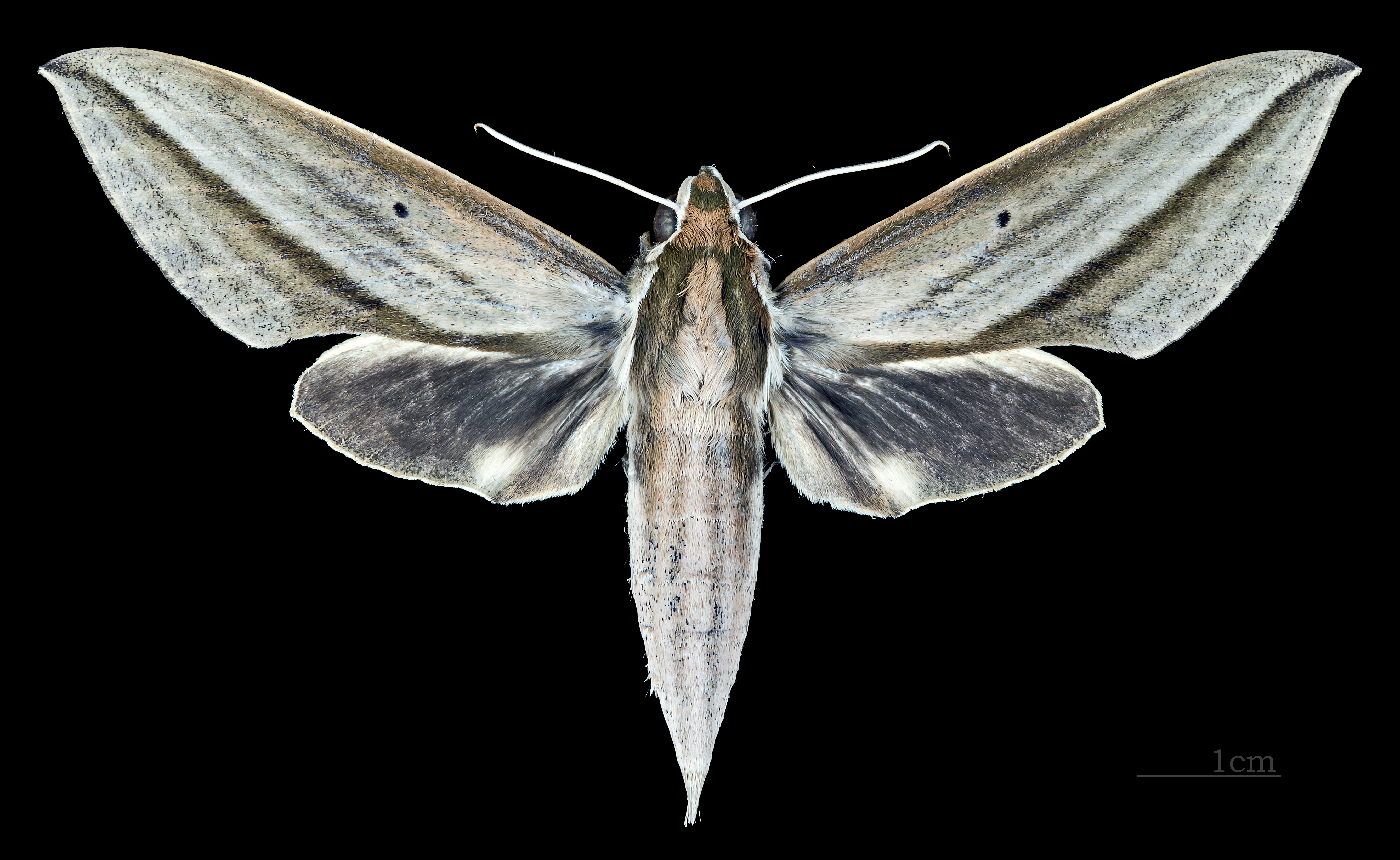 Theretra queenslandi - Dorsal side Collection of the Mathematician Laurent Schwartz